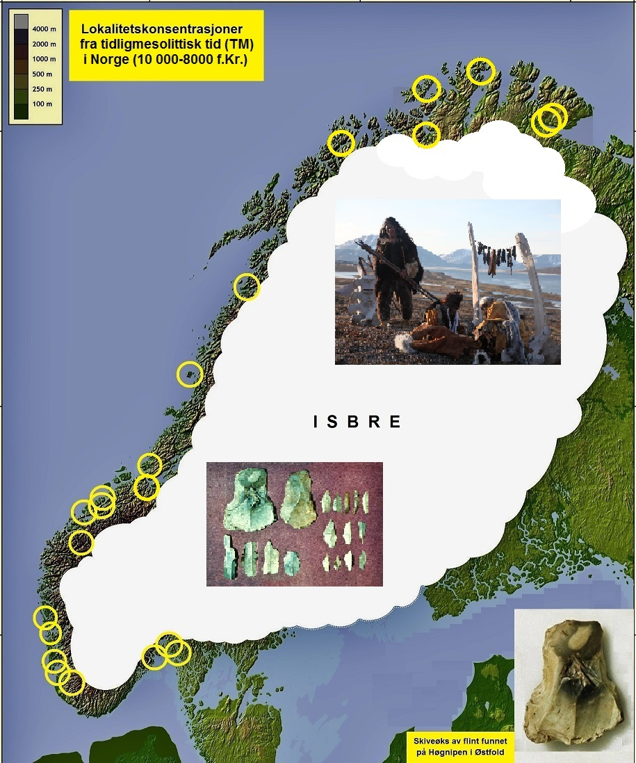 Ancient sites from early mesolithic Norway (10,000-8000 BC cal.)